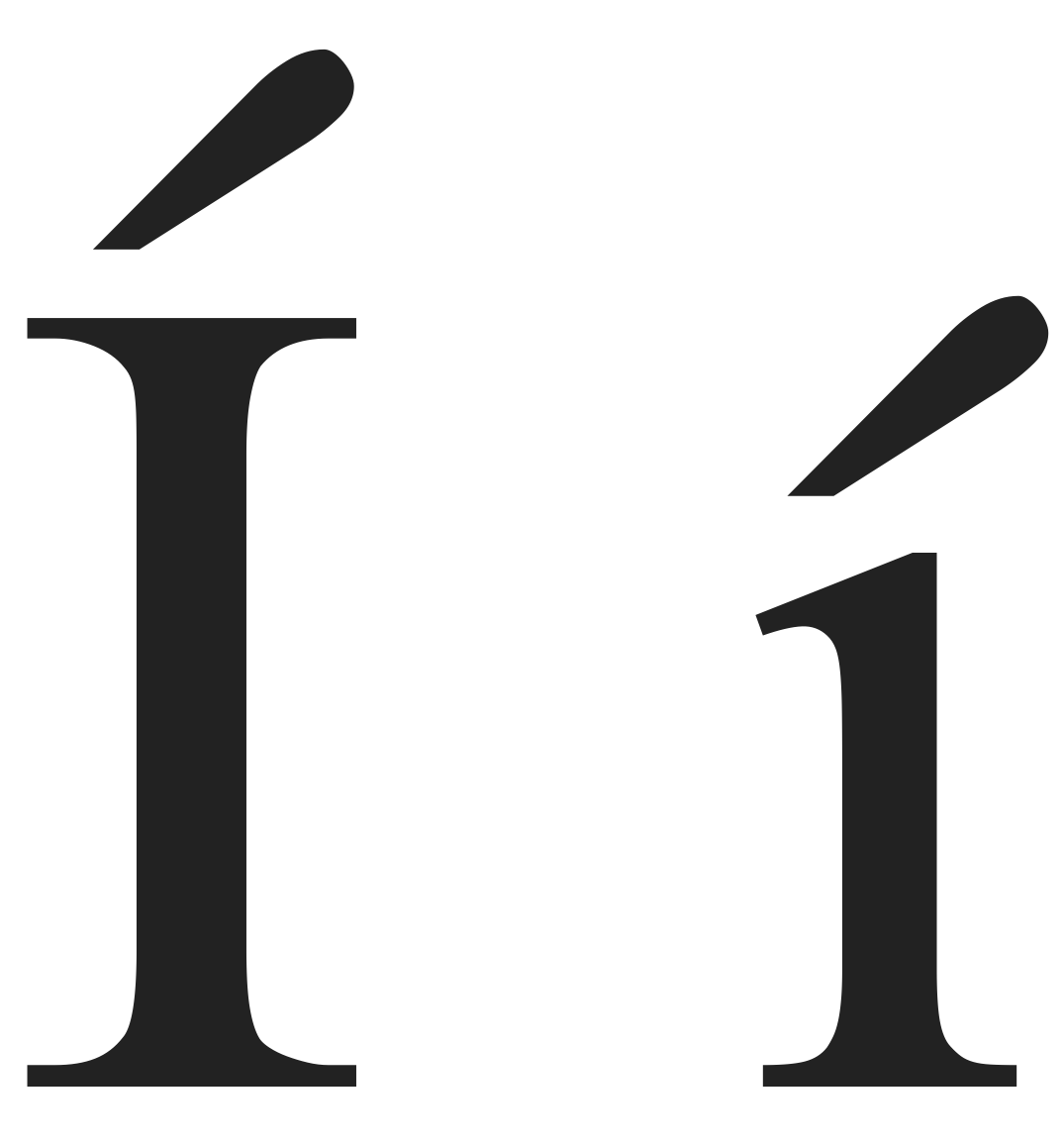 I with acute